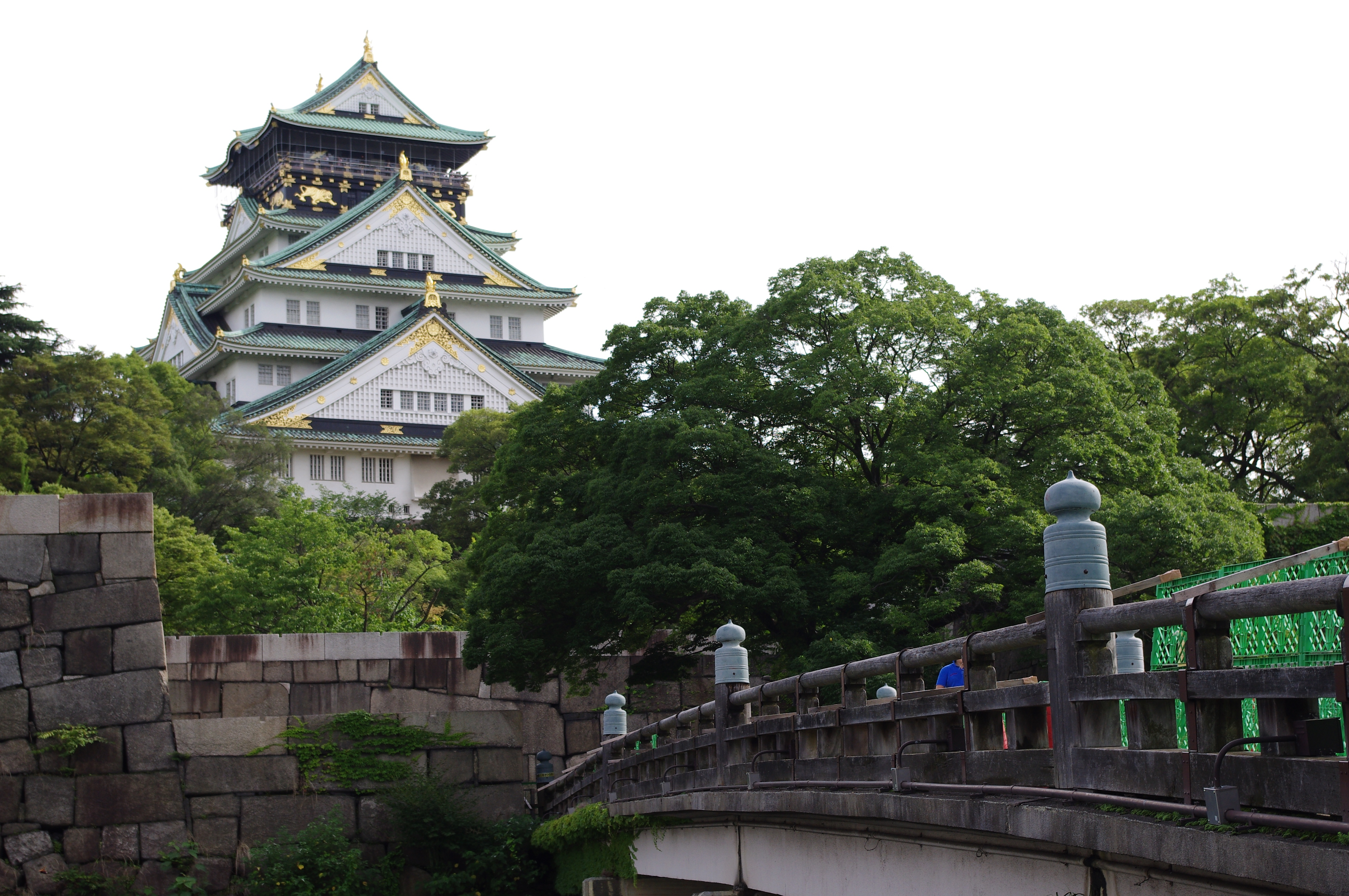 Osaka Castle